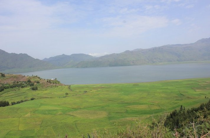 This is an image of Lake Hashenge - a natural lake found in Ofla 5km from korem town, it is found in tigrai region of Ethiopia